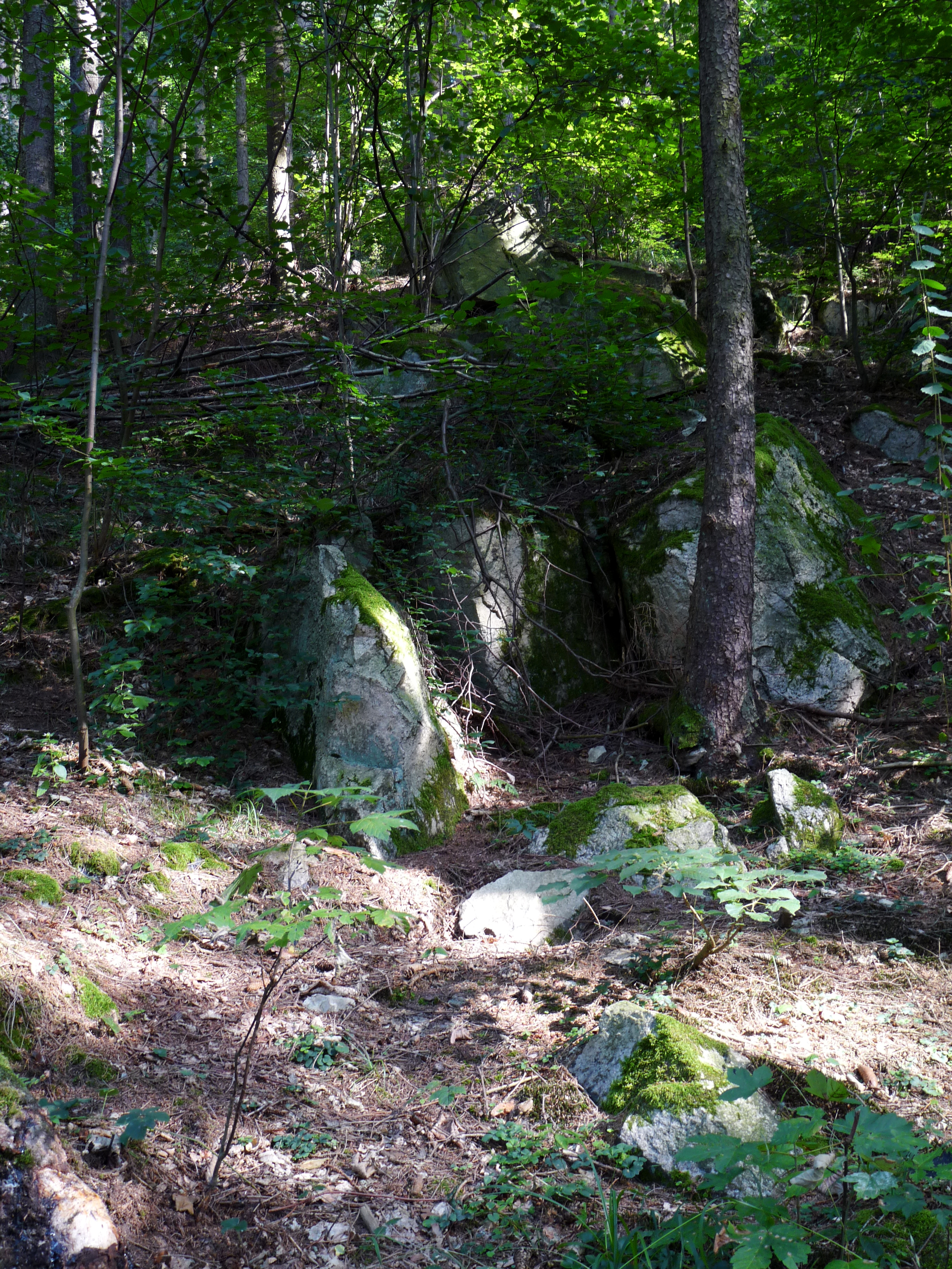 Rocks in the natural monument Na Stříbrné, Benešov District, Central Bohemian Region, Czech Republic.